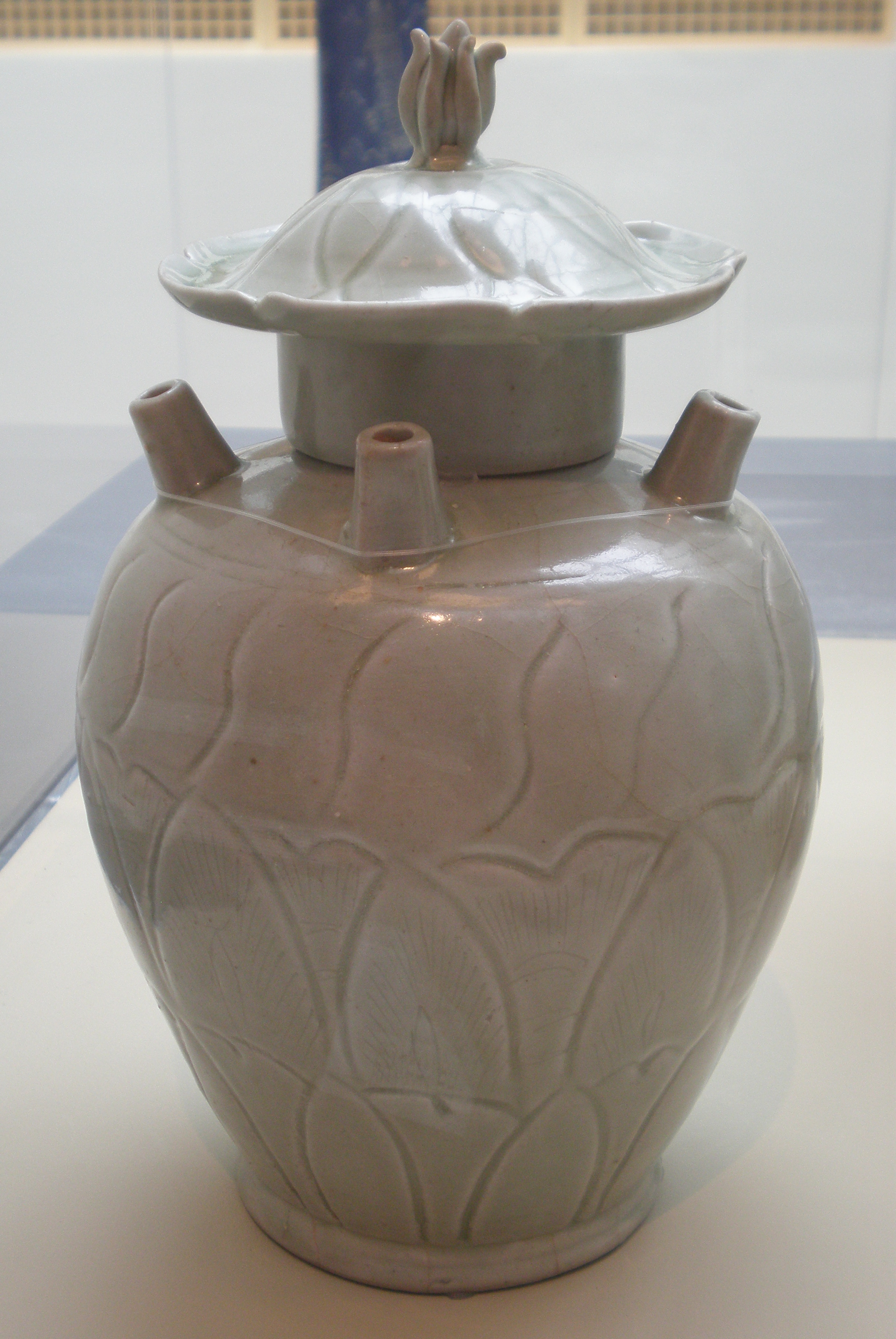 Vase with a lotus finial and four spouts, Five Dynasties or Northern Song Dynasty (907-1000) on display at the Asian Art Museum in San Francisco, California. B60P2037